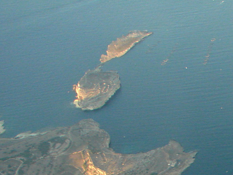 Republic of Malta, St. Paul Islands - Fly view